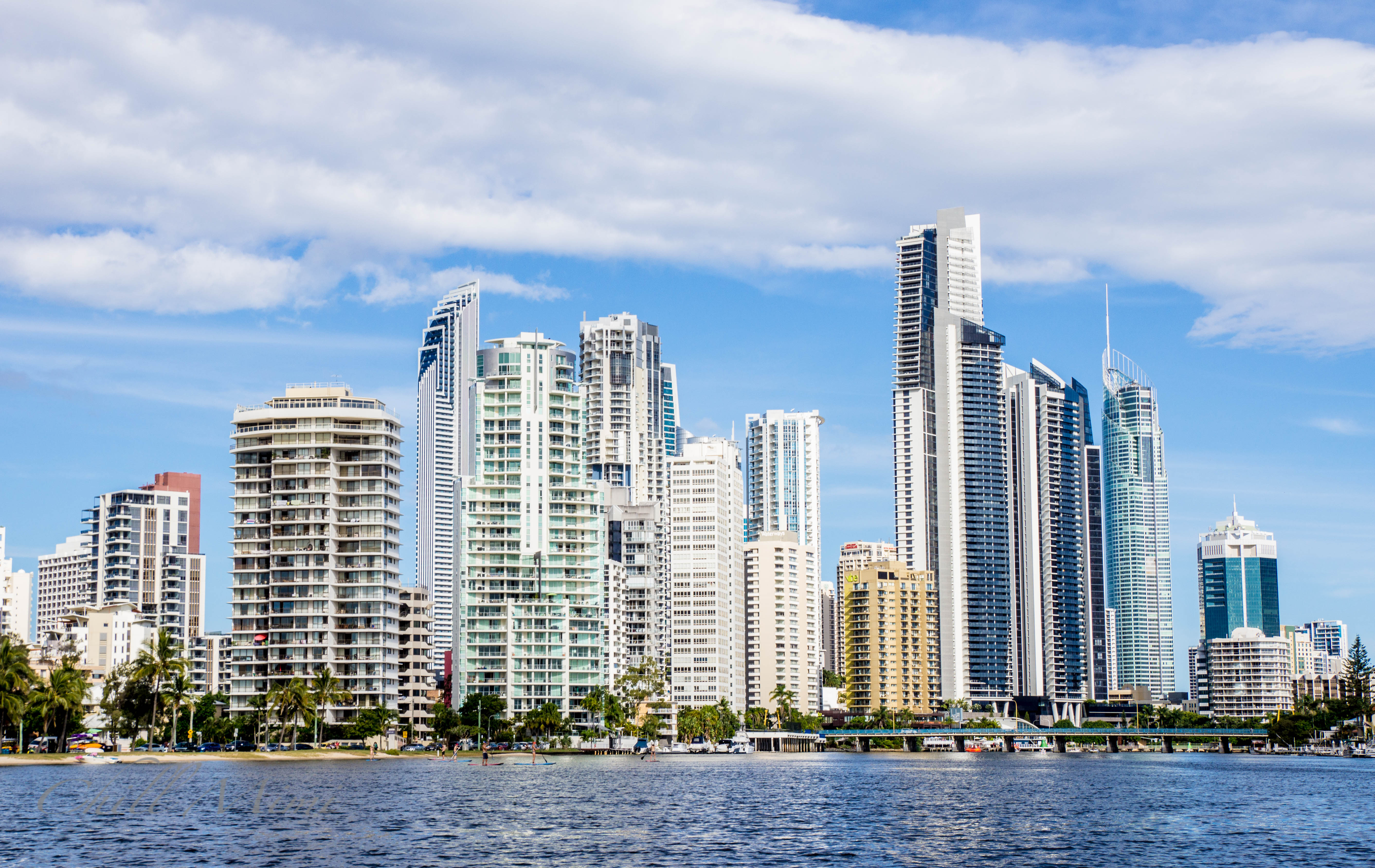 Surfers Paradise, QLD skyline